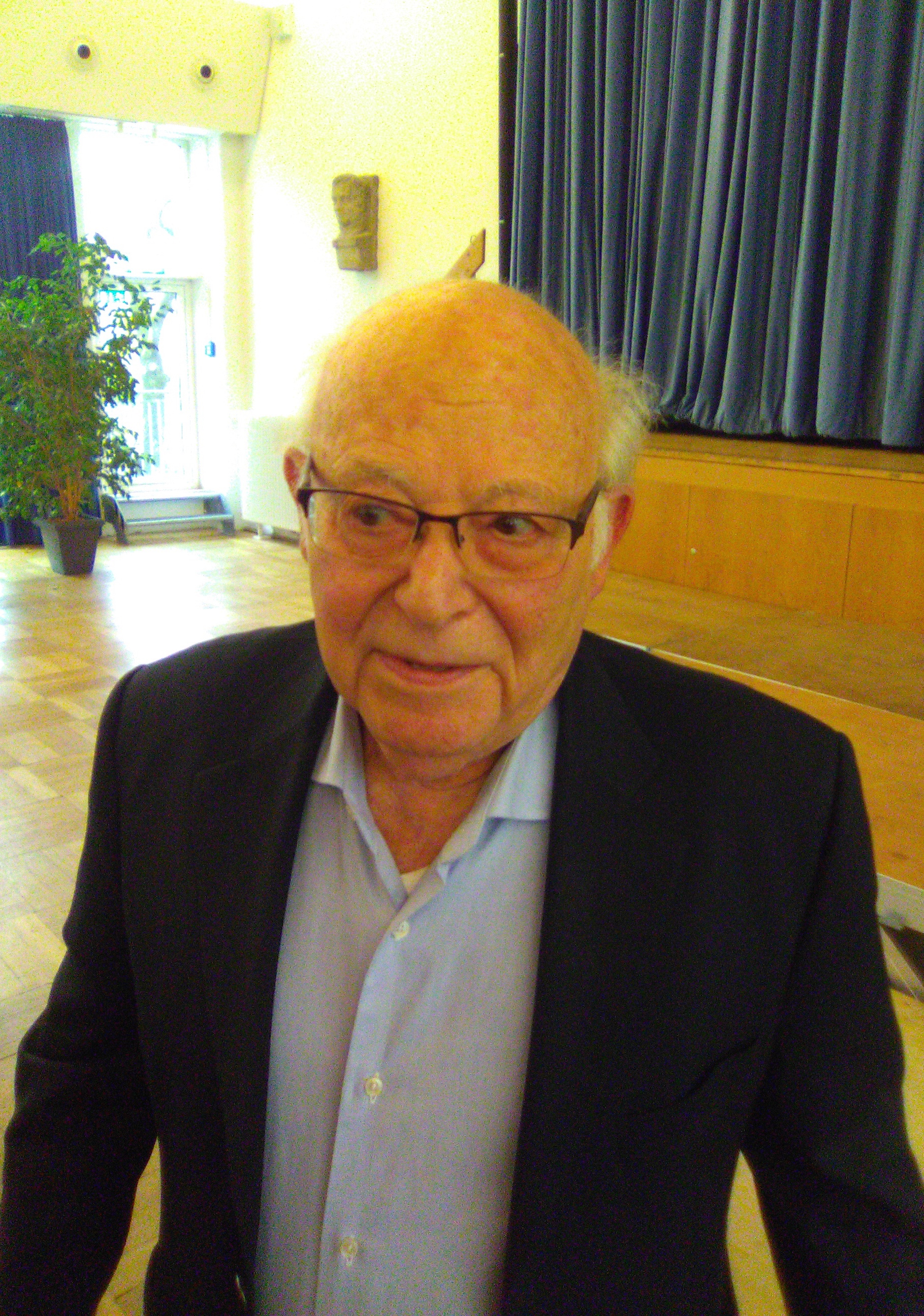 Simha Arom in Düsseldorf at the Humboldt-Gymnasium 2016.